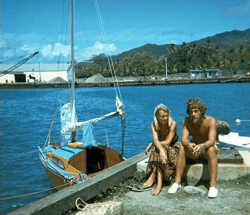 Shane Acton